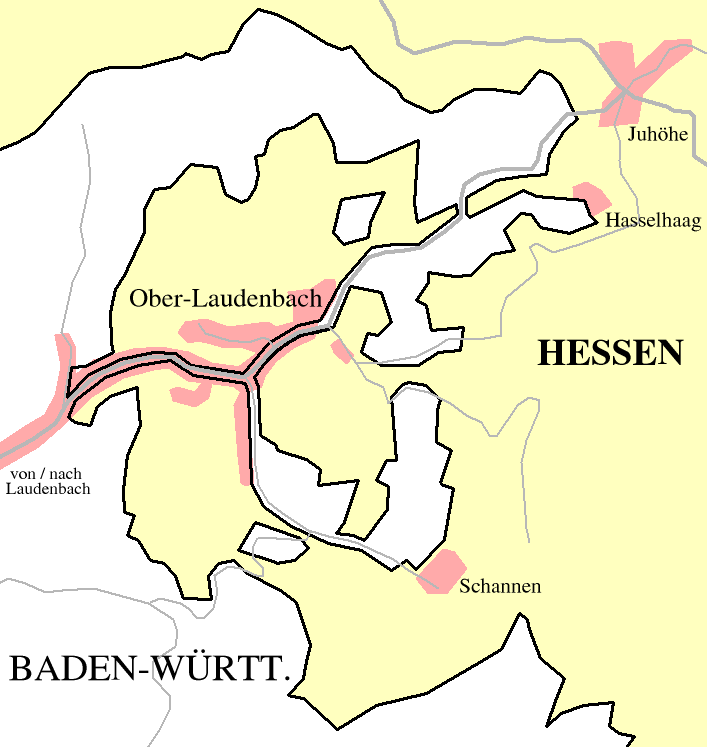 Border between the German states of Baden-Württemberg and Hesse near Ober-Laudenbach